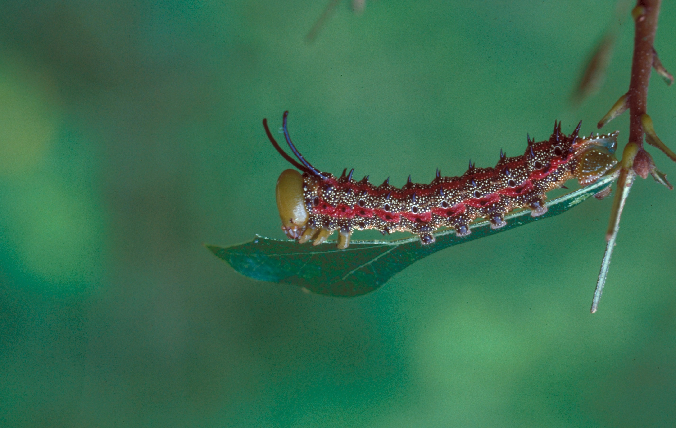 Anisota virginiensis larva